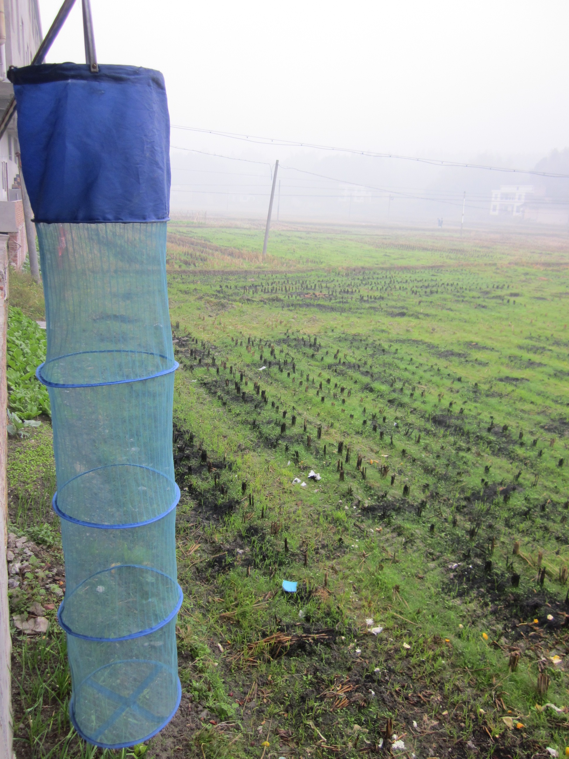 Yuhu, it is a kind of fishing gear.